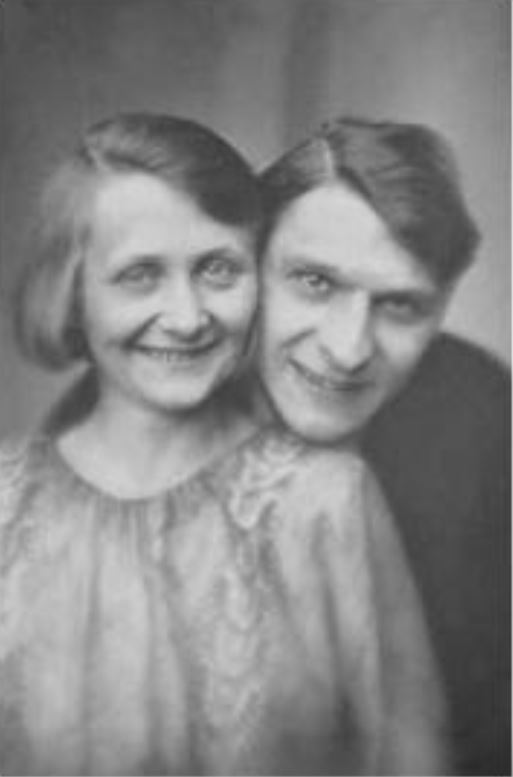 Roland Paris